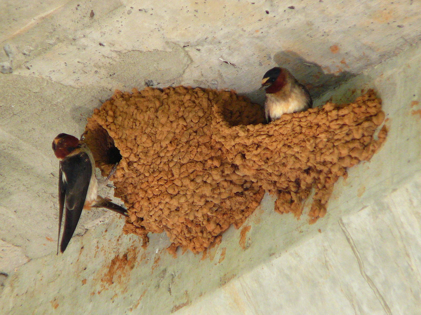 A pair of Cliff Swallows (Petrochelidon pyrrhonota) at their nests, tucked under the Corpening Bridge on the Johns River. Photo taken with a Panasonic Lumix DMC-FZ50 in Burke County, NC, USA.